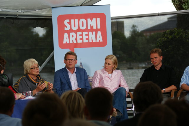 The Chairmen of four major Finnish political parties during municipal elections campaign in 2008 at Suomi Areena discussion event. From left to right: Tarja Cronberg (Green League), Matti Vanhanen (Centre Party), Jutta Urpilainen (Social Democratic Party) and Jyrki Katainen (National Coalition Party).